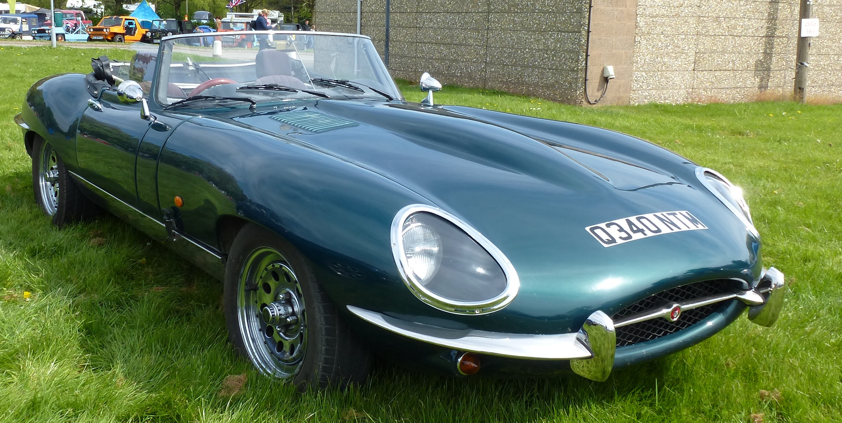 JPR Wildcat